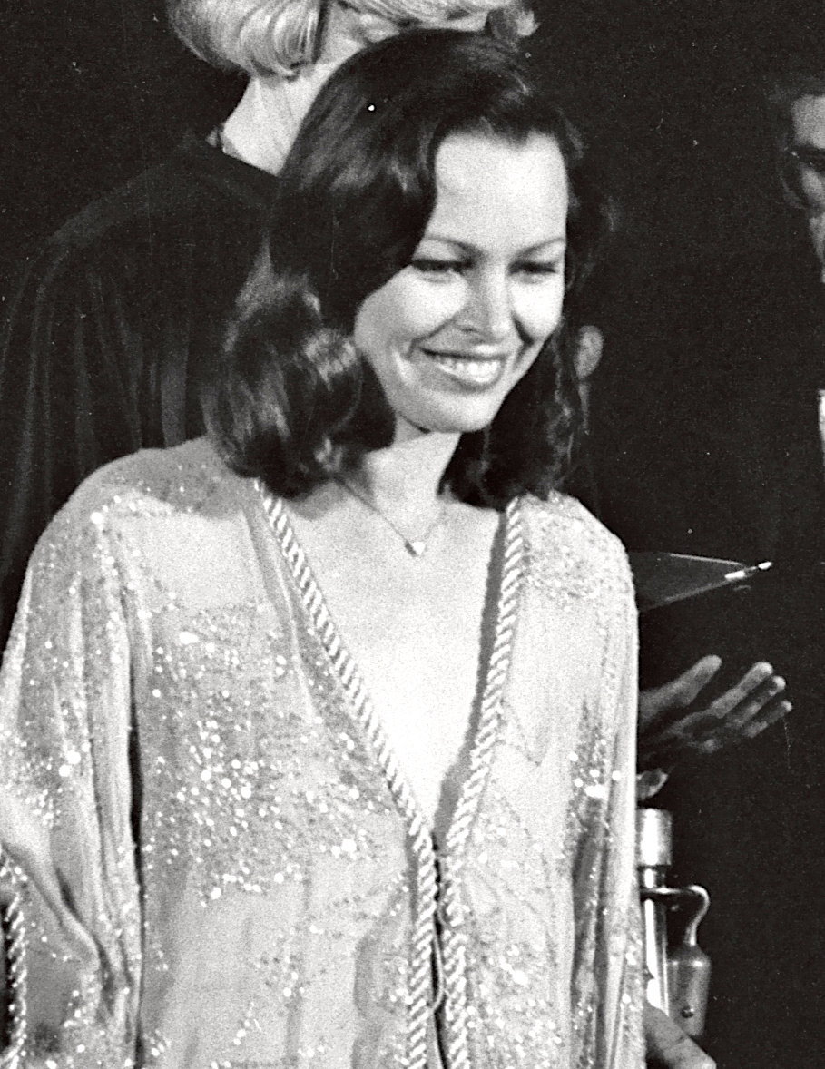 Michelle Phillips, photographed in 1979 at the National Film Society Convention